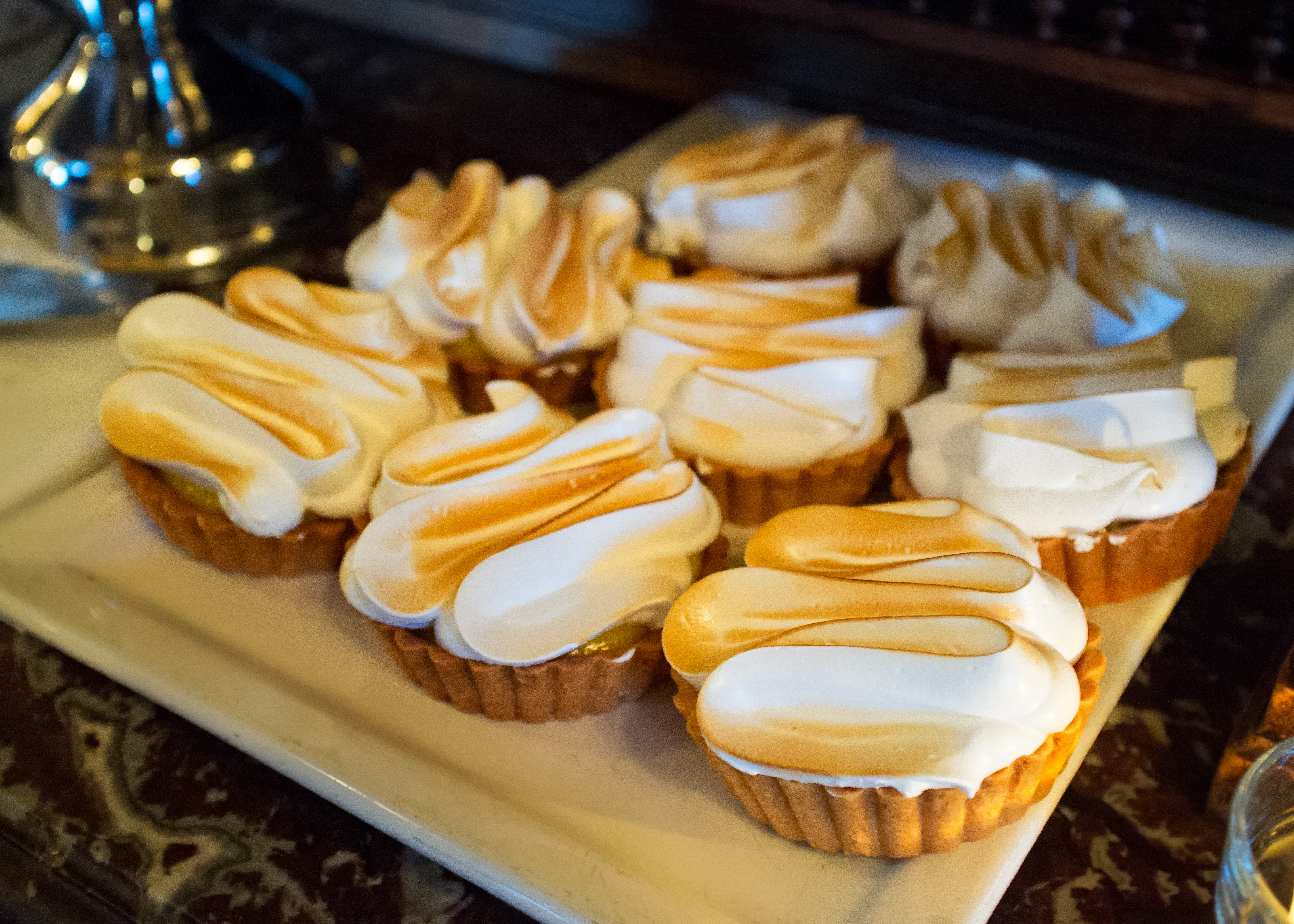 Tray of lemon meringue tarts at Chez Fonfon. Jenny and I both had one.